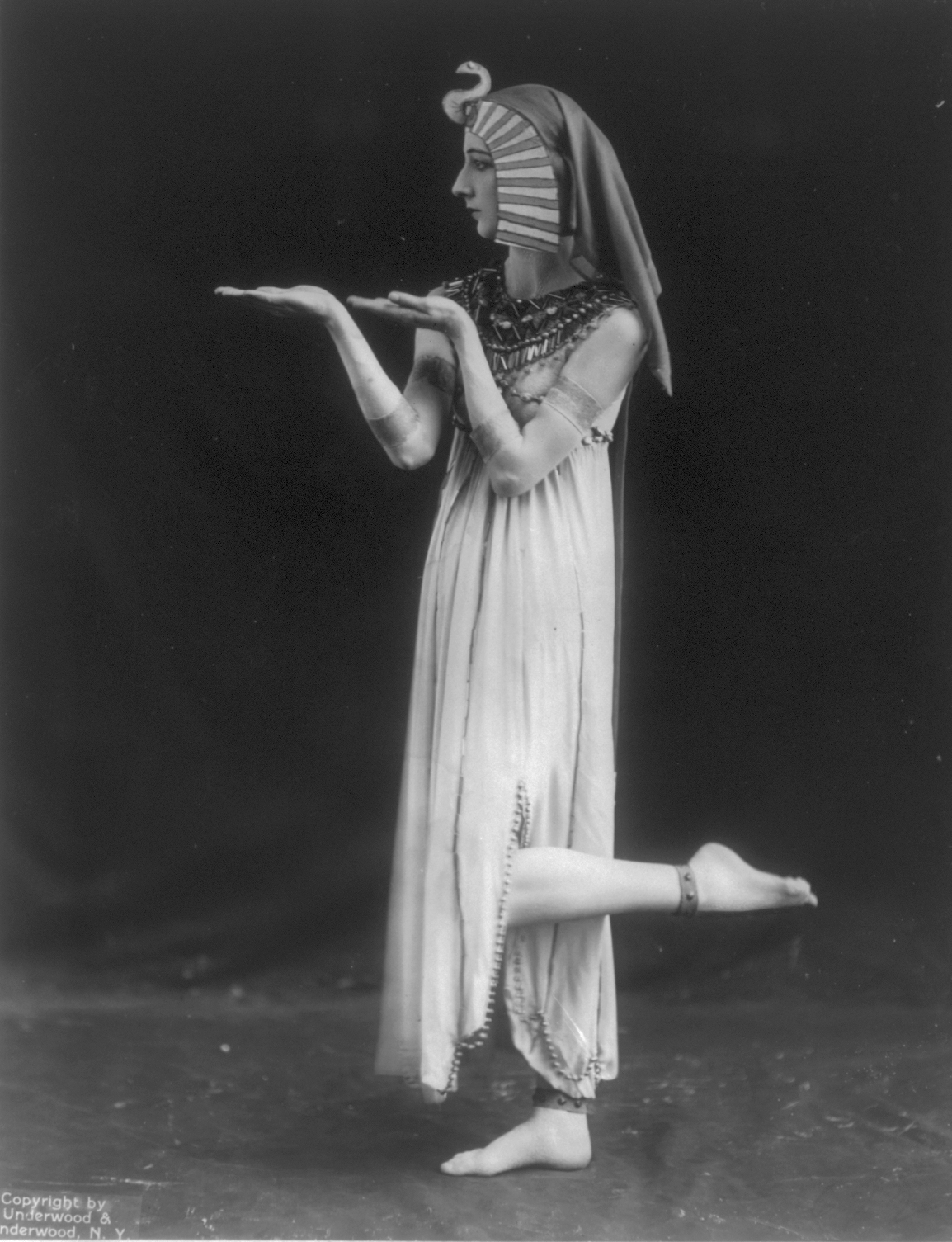 Portrait of Russian dancer Lubowska, full-length portrait, standing, left profile, in Cleopatra costume, 1915 Note: "Mme Lubowska" or "Madam Désirée Lubovska" was not actually Russian; stage name of U.S.A. born Winniefred Foote (1893-1974).